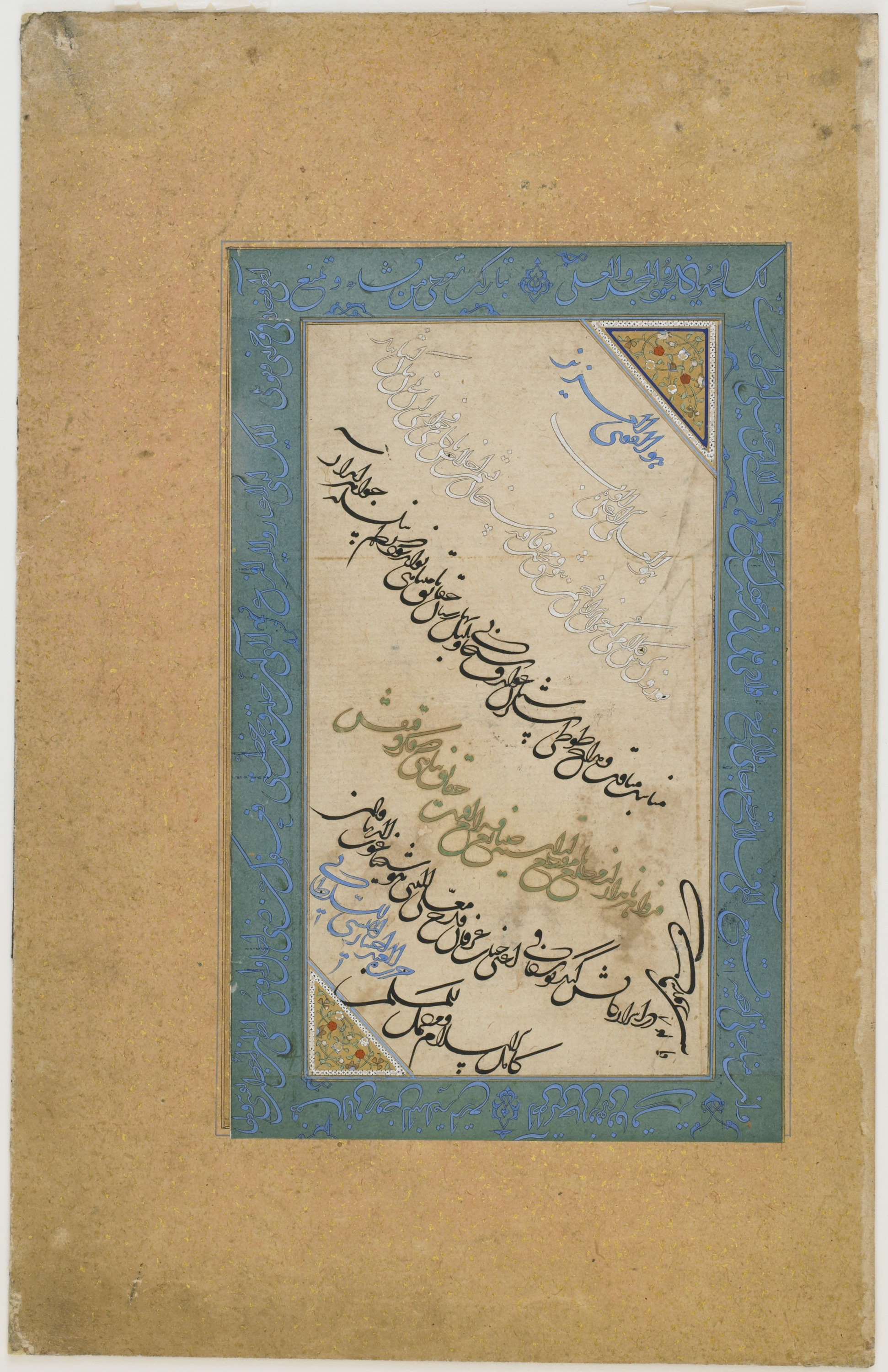 Folio of calligraphy Ink, opaque watercolor, and gold on paper H: 22.0 W: 13.7 cm Iran or Afghanistan